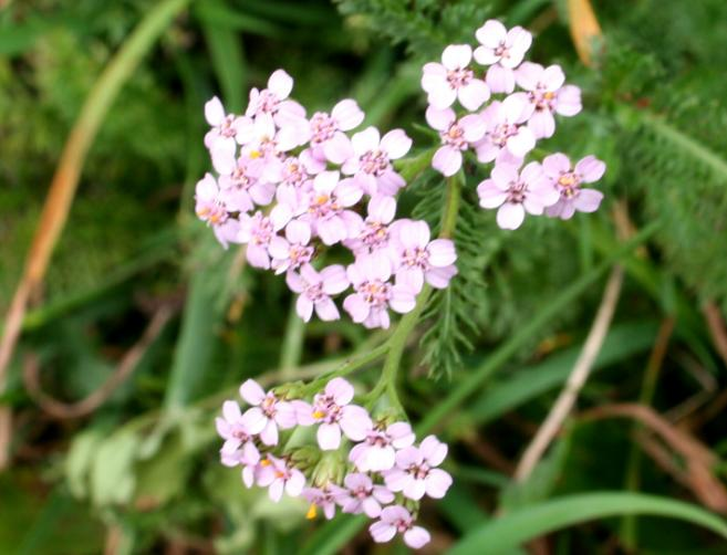 Achillea millefolium